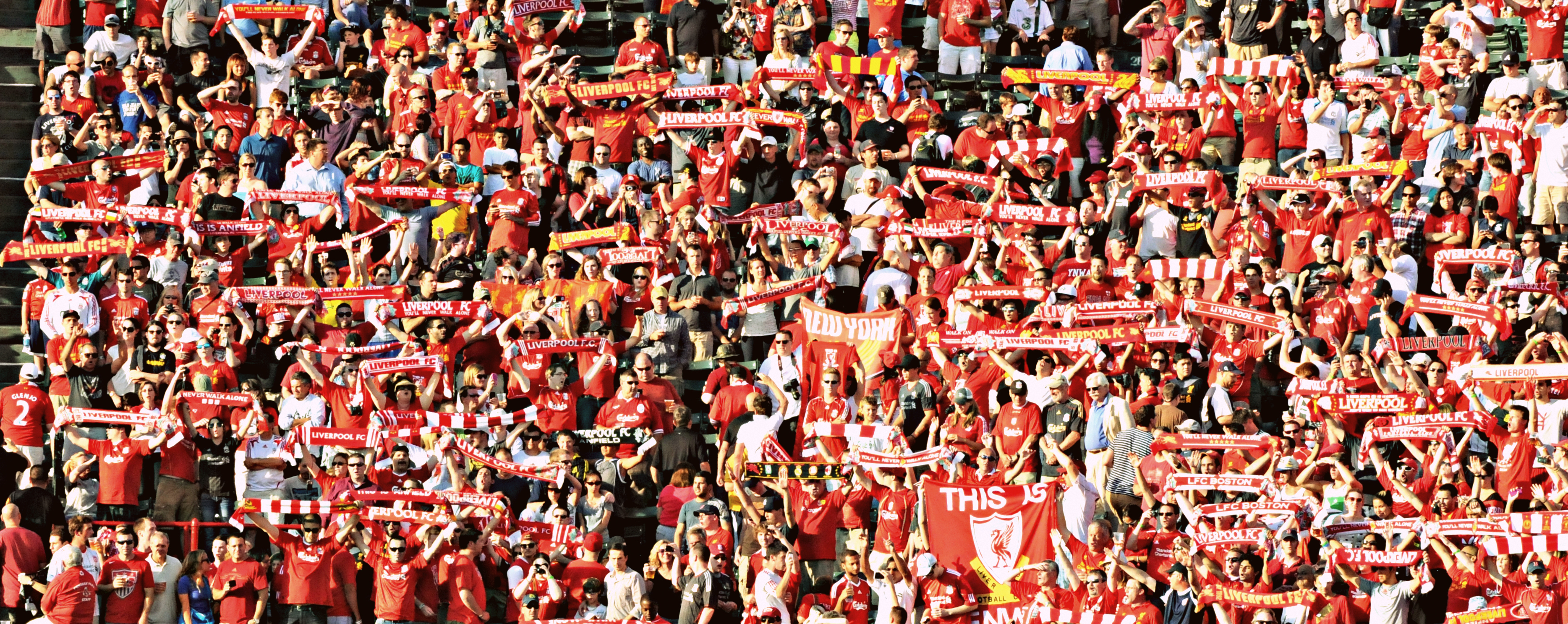 Liverpool fans singing YNWA before the kick-off.